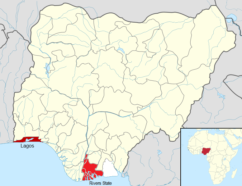 Nigeria 2014 Ebola spread